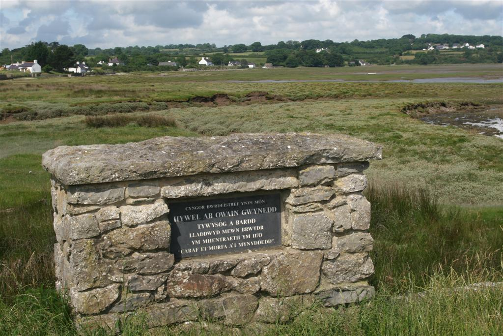 Hywel ab Owain memorial, Red Wharf Bar / Pentraeth, Anglesey